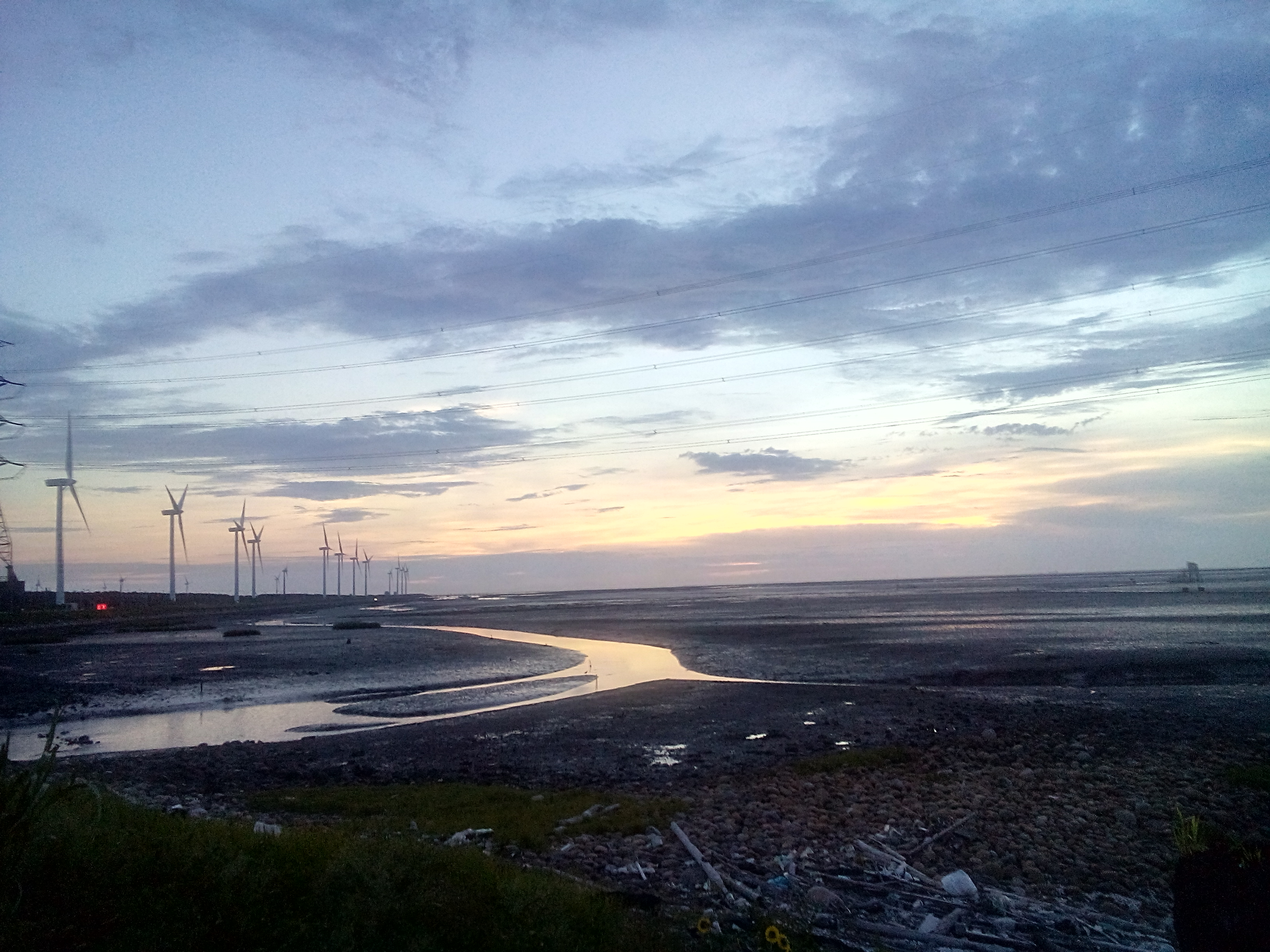 Shengang